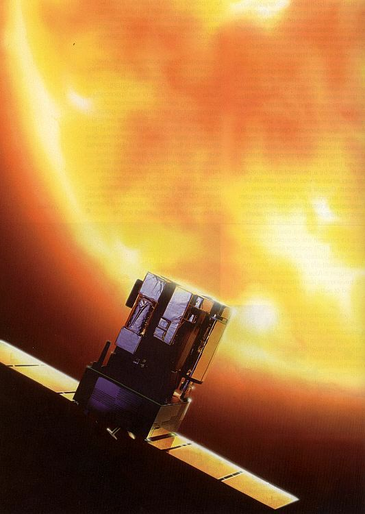 An artist's rendering of the SOHO spacecraft observing the Sun.